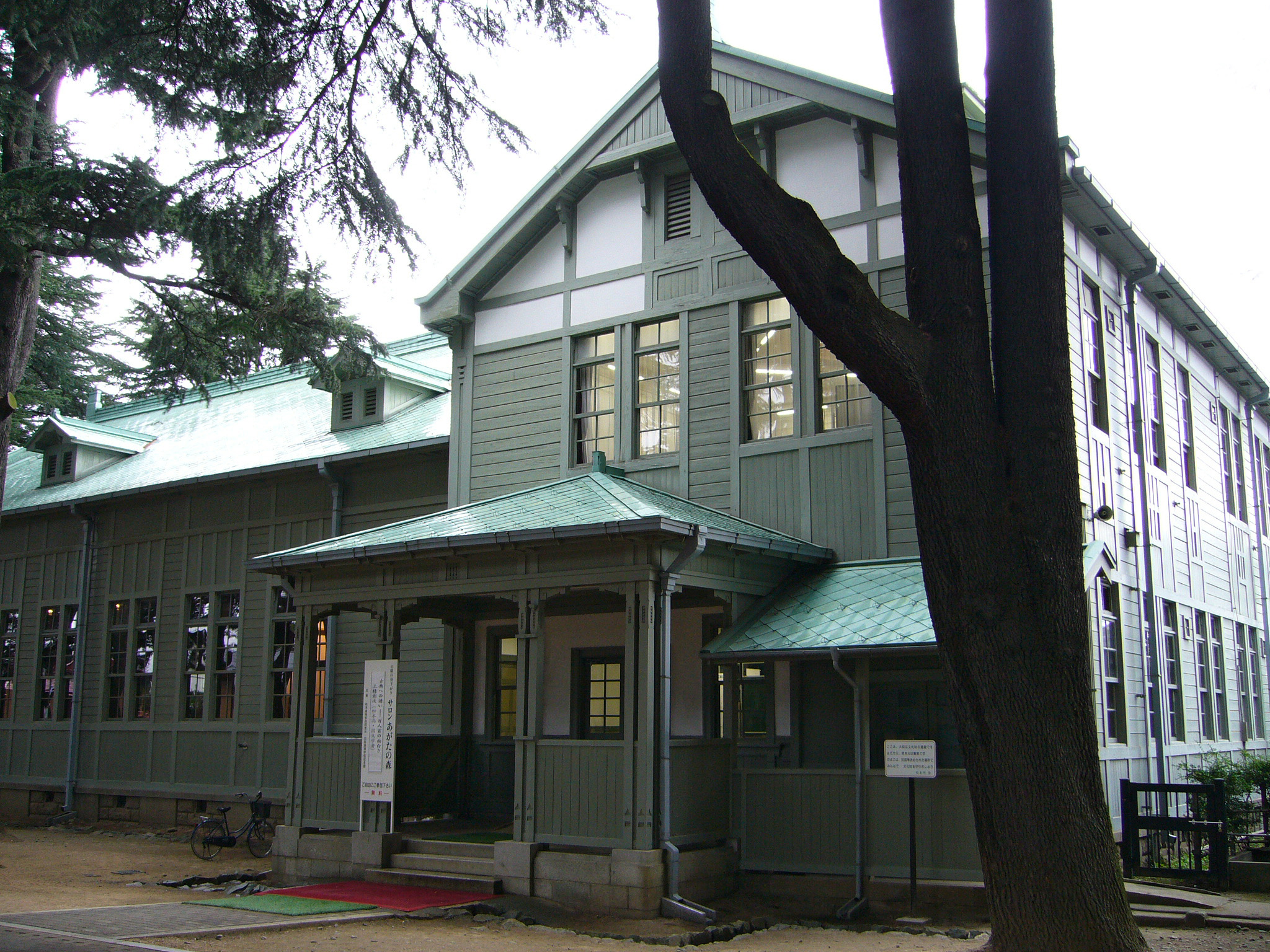 The Old Matsumoto Higher School in Matsumoto, Japan